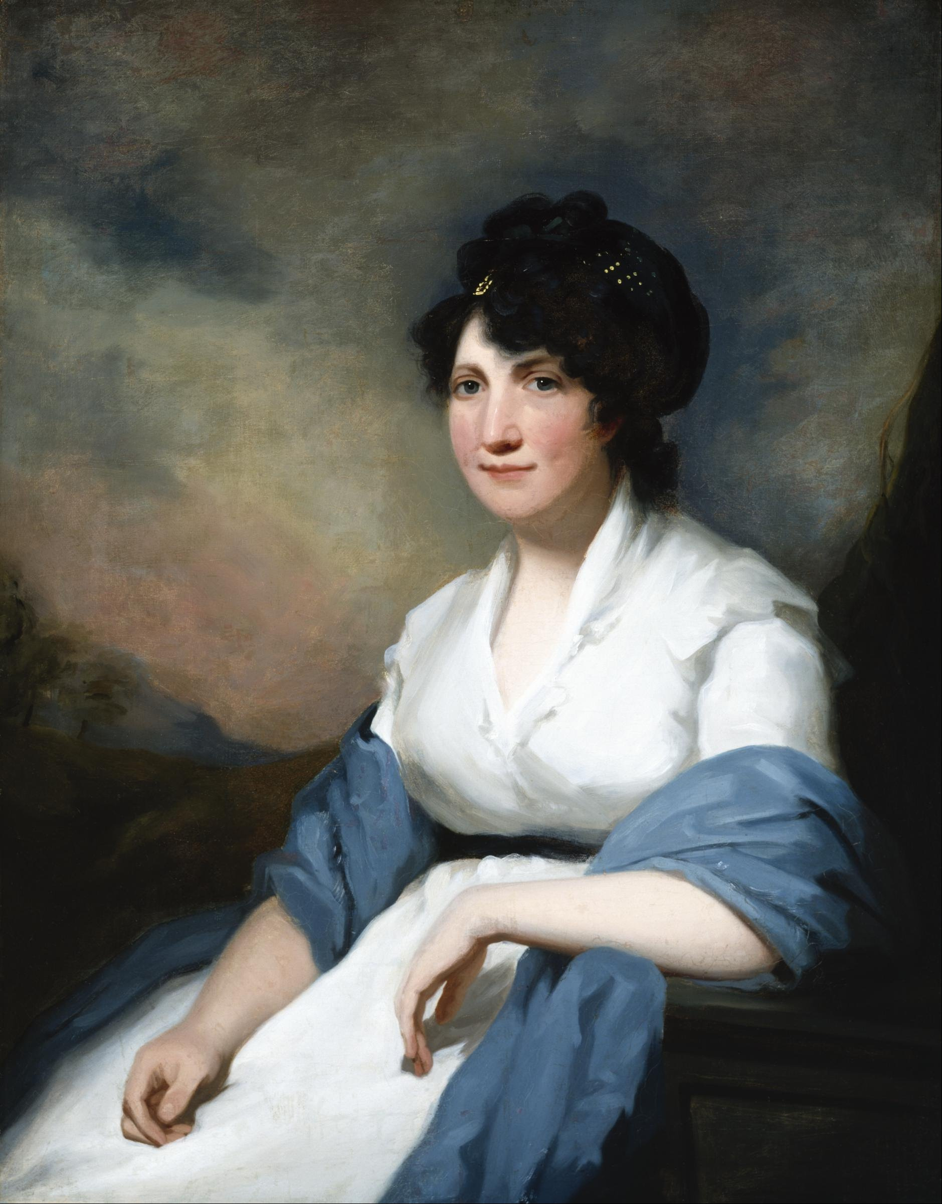 Illustrated Catalogue of Highly Important Old and Modern Paintings of Sterling Artistic Distinction Belonging to Arthur B. Emmons and Others (public domain catalogue) describes this painting as follows: SIR HENRY RAEBURN, R.A. Scottish: 1756—1823. 147—PORTRAIT OF LADY BROUGHTON Height, 35 inches; width, 27 inches. Three-quarter length; three quarters to the left; seated. In a white dress of muslin, black sash; a blue wrap lying across her arms. Dark blue and gold ribbon in her dark hair. Her left arm rests on a pedestal. Sky background. Elizabeth, eldest daughter of Philip Egerton and sister of John Egerton of Fulton Park, married, June 5, 1792. Sir John Delves Broughton, 7th Bart. Sir John succeeded his father in 1813, and d. s. p. Aug. 9, 1847. Lady Broughton died at Hoole House, Cheshire, Jan. 27, 1857, aged 86. The Lady Broughton painted by Sir Joshua Reynolds was the mother-in-law of Elizabeth, Lady Broughton, here painted. The family of Delves were out of genealogical consideration for centuries, but their ancestor, Sir Henry Delves, had fought in the French wars under Edward, the Black Prince. The fourth Baronet assumed the name of Delves. By order of the Executors of the late Thatcher M. Adams, New York.